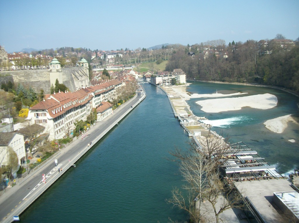 River Aar at Bern